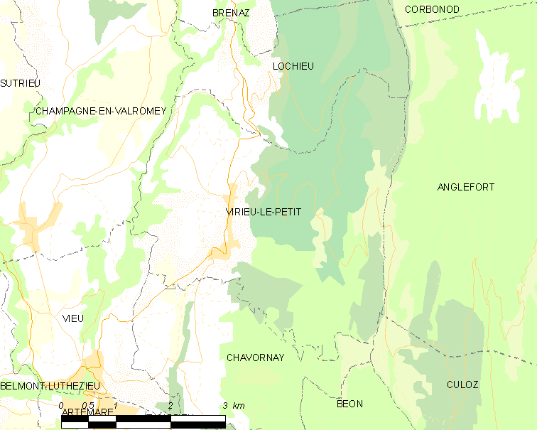 Map of French commune: Virieu-le-Petit Map commune FR insee code 01453.png